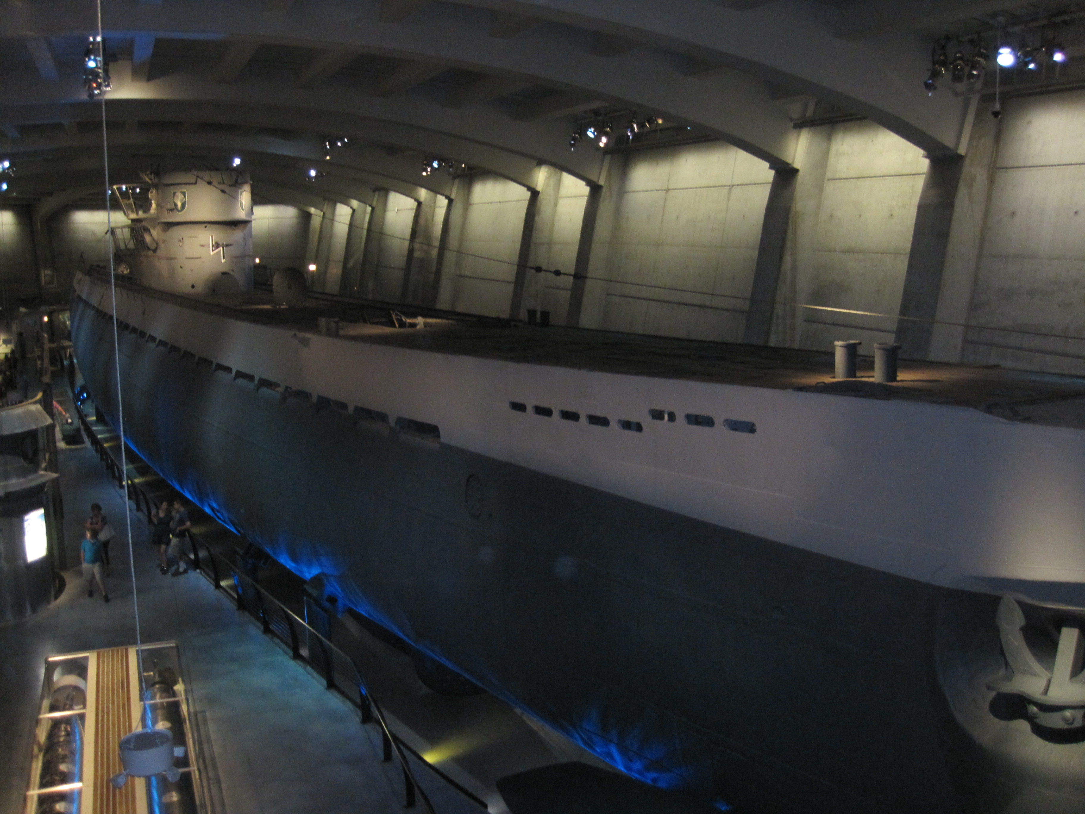 The U-505, a Type IXC U-boat (1940). She was laid down in late 1940 and first saw action the following year for the Kriegsmarine in WWII. U-505 sank five ships off the west coast of Africa in early 1942, three in the Caribbean in June, and one north of Venezuela in November. Shortly afterward, it was successfully attacked around Trinidad by a Lockheed Hudson bomber and badly damaged. However, the staff was able to save it, and the safe return of the most damaged submarine to date boosted morale. In 1943, she was attacked by a fleet of British destroyers, prompting the captain to commit suicide, the only officer in any navy to commit suicide while commanding a ship in battle.In June 1944, it was again on patrol off the coast of Morocco when it was intercepted by a US naval task group. The USS Chatelain destroyer escort hit the sub, forcing it to surface. The Germans on board failed to scuttle the ship when they evacuated and it was captured by the USS Pillsbury destroyer escort. The captured ship provided the Allies with useful intelligence on German Enigma Machines, which was used to decipher German transmissions. The leader of the boarding party was awarded the Medal of Honor. The submarine was donated to the Museum of Science and Industry in 1954 and has been a museum ship ever since.